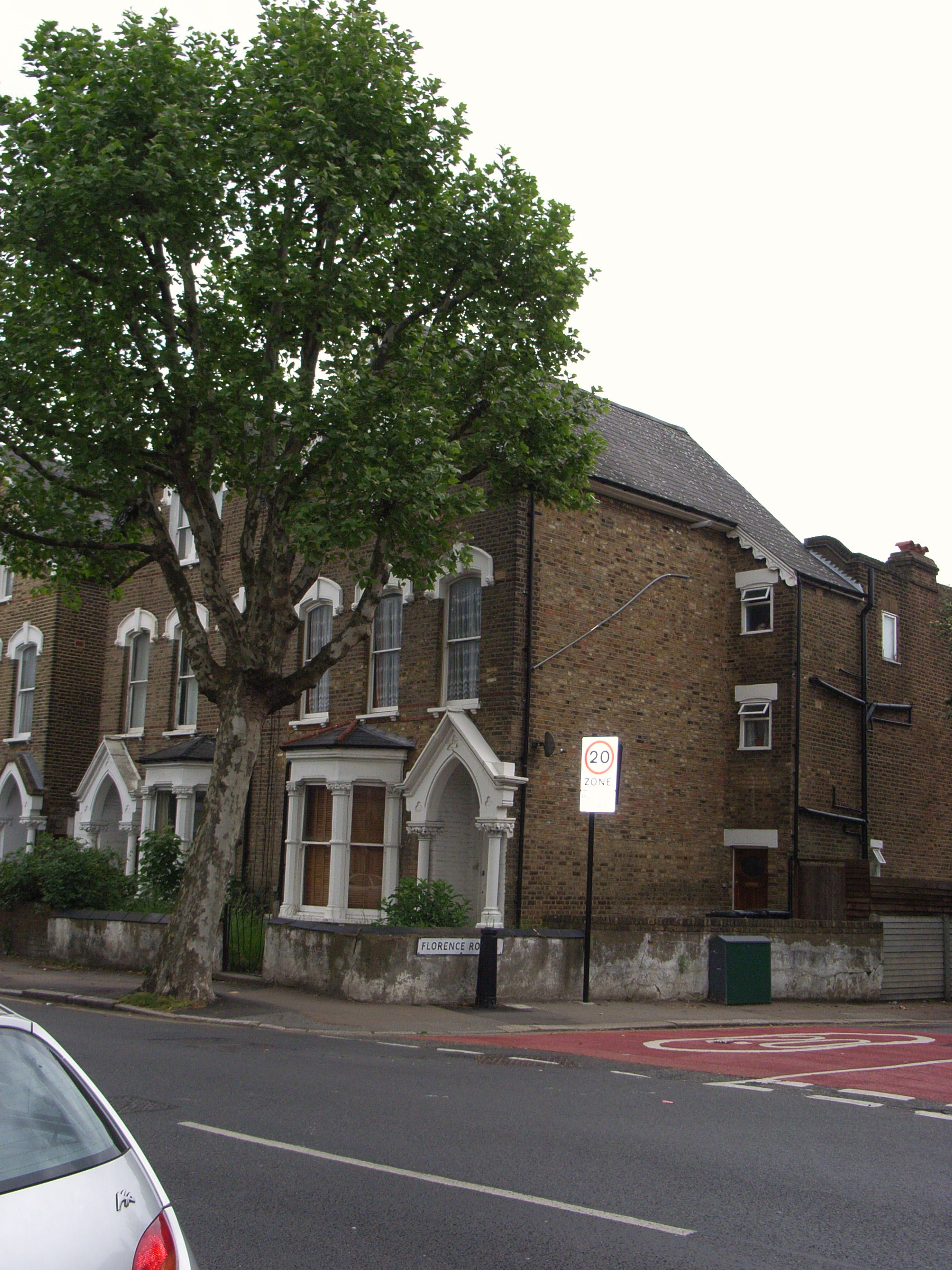 One of two buildings in Stapleton Hall Road, London, N4, that once belonged to the Stapleton Hall School for Girls, which closed in 1935. See Stroud Green, London for full details.